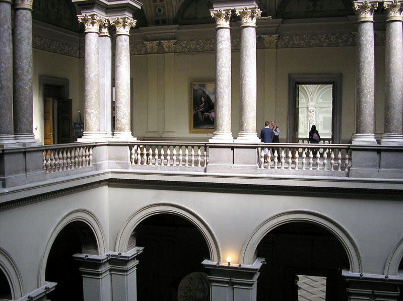 The Palace of Arts, Budapest